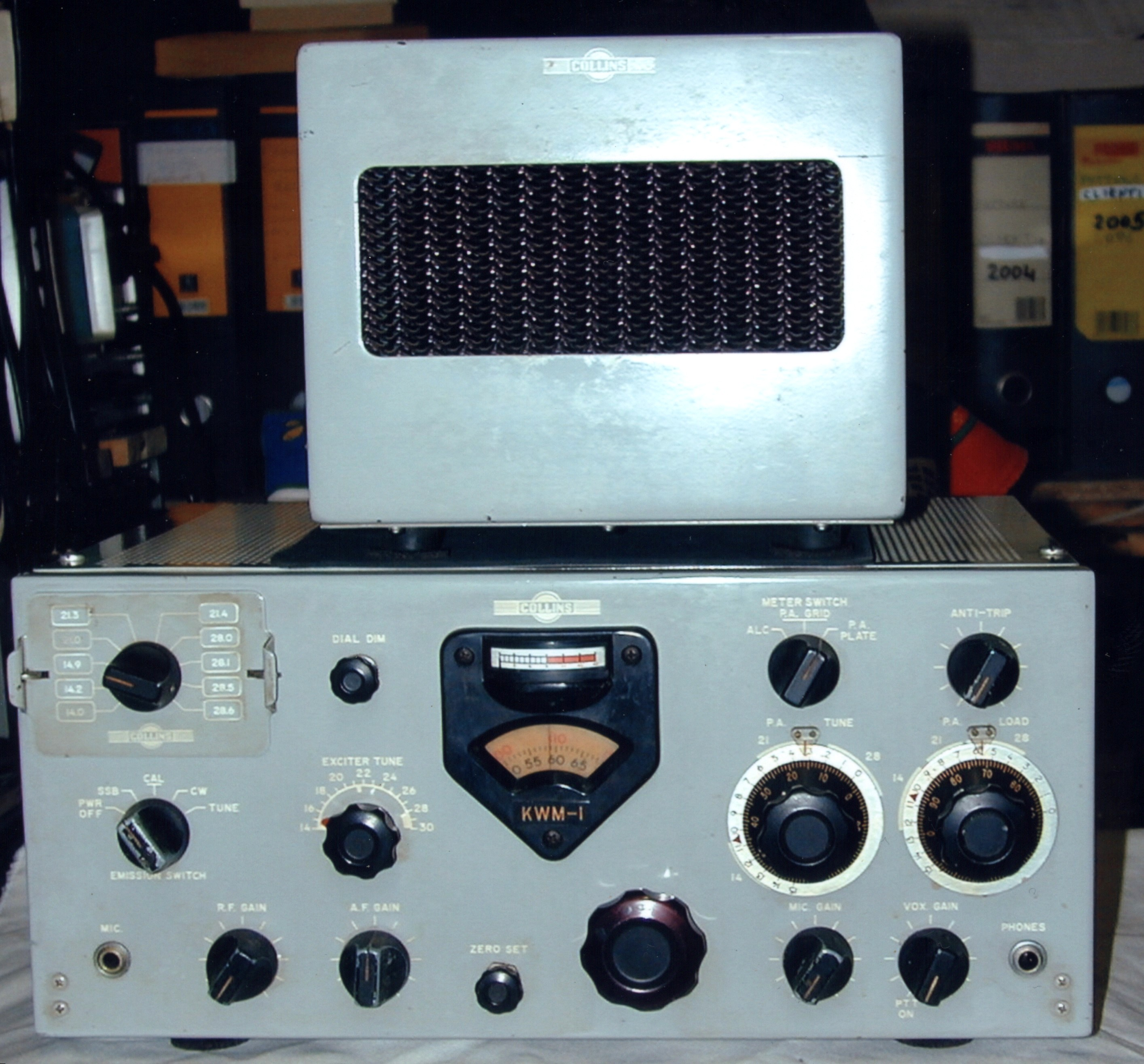 KWM-1 SPECIFICATIONS: RF POWER INPUT: 175 watts SSB PEP or 160 watts CW. OUTPUT IMPEDANCE: 52 ohms with not more than 2.5:1 SWR. POWER SOURCE: 115 vac 50-60 cps, 12 vdc, or 28 vdc POWER INPUT: Filaments 5.25 a at 12 v; B+ and Bias: Transmit: 800 v at 200 ma; 265 v at 210 ma; - 50 to -80 v at 3 ma Receive: 290 v at 170 ma. SIZE: Transceiver - 6-1/4" h, 14" w, 10" d AC Power Supply - 6-1/4 h, 7-5/8" w, 10" d DC Power Supply - 7-19/32" h, 10-1/8" w, 5-3/4" d Speaker Cabinet - 6-1/4" h, 7-5/8" w, 10" d WEIGHT: Transceiver - 15 Lbs. AC Power Supply - 25 Lbs. DC Power Supply - 15 Lbs. Speaker Cabinet - 5 Lbs. FREQUENCY RANGE: 14-30 mc continuous. Choice of any ten 100 kc bands by crystal switch. Standard complement of crystals: 14.0 - 14.1 mc CW 14.2 - 14.3 mc SSB 14.9 - 15.0 mc calibration with WWV 21.0 - 21.1 mc CW 21.3 - 21.4 mc SSB 21.4 - 21.5 mc SSB 28.0 - 28.1 mc CW 28.1 - 28.2 mc CW 28.5 - 28.6 mc SSB 28.6 - 28.7 mc SSB FREQUENCY CONTROL: 70K-1 Permeability Tuned VFO HARMONIC AND SPURIOUS RADIATION: Carrier suppression -50 db, unwanted sideband 50 db, oscillators and mixer products -50 db, second harmonic -50 db, 3rd order products 30 db. FREQUENCY STABILITY: After 10-minute warm-up, within 100 cps. Reset within 1 kc throughout range. AUDIO CHARACTERISTICS: Response 300 - 3,000 cps noise 40 db below one tone carrier; transmitter input designed for high impedance crystal or dynamic mike. PHONE PATCH IMPEDANCE: 600 ohms unbalanced to ground. CIRCUIT PROTECTION: Primary fuses. ACCESSORIES REQUIRED: Hi-Z Dynamic or Crystal Microphone and/or telegraph key, antenna, loudspeaker and/or headphones, 516E-1 dc and/or 516F-1 ac power supply POWER SOURCE: 115 vac 50-60 cps; 12 vdc; 28 vdc. RECEIVER SENSITIVITY: 1.0 uv for 6 db S/N ratio with 3 kc bandwidth. NUMBER OF TUBES: 24 plus 2 rectifiers in ac power supply. NUMBER OF TRANSISTORS: 6 in dc power supply. Reference